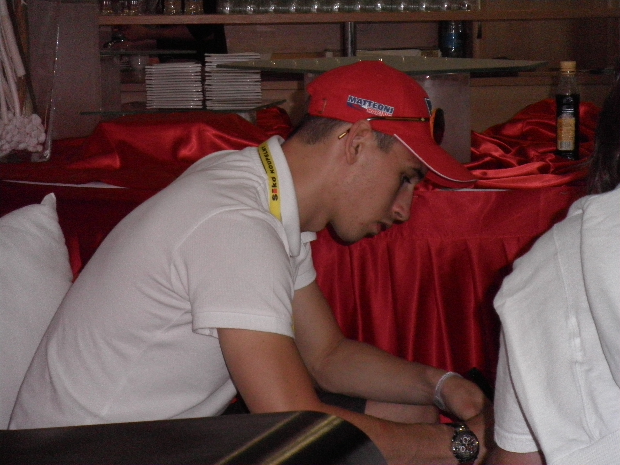 Czech motorcycle racer Lukáš Pešek on Moto GP 2010 in Brno Circuit